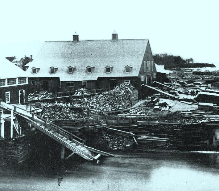 Photograph, Hamilton's saw mills and timber slides, Hawkesbury, ON, about 1859, William Notman (1826-1891), Silver salts on paper mounted on card - Albumen process - 7.3 x 7 cm